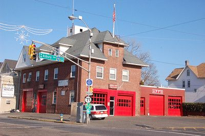 Fire Headquarters